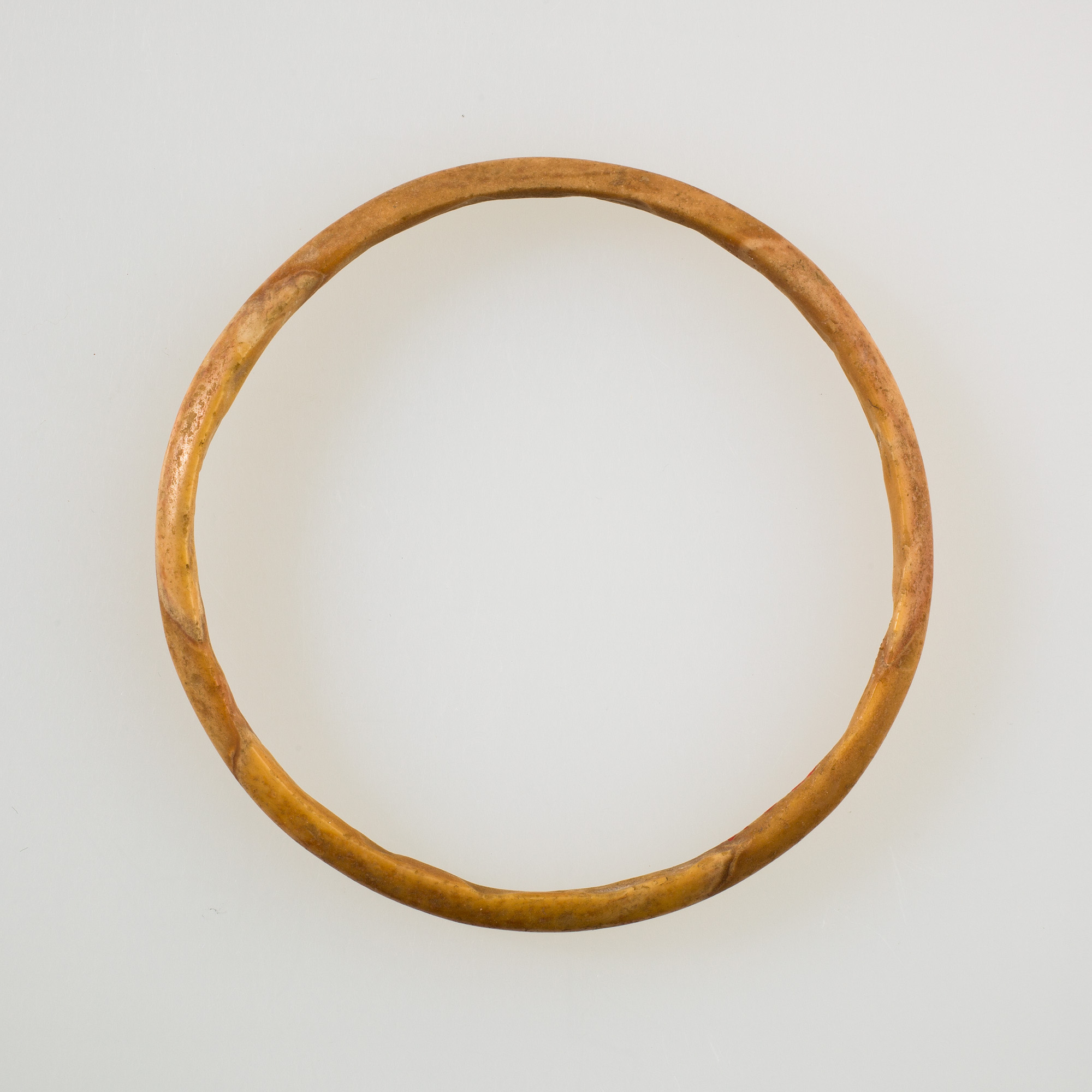 Bracelet